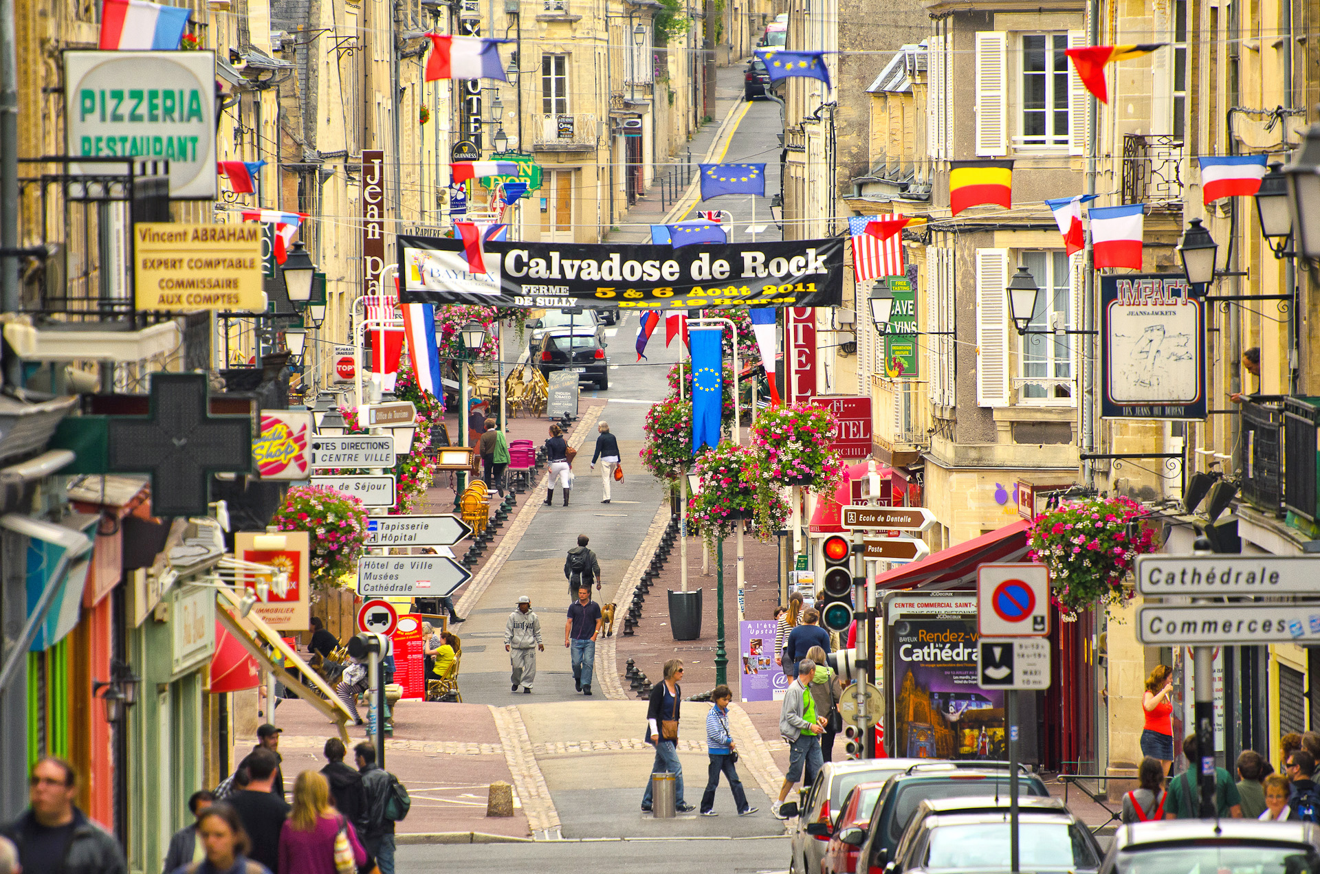 Center of Bayeux town on week-end (Normandy, France)